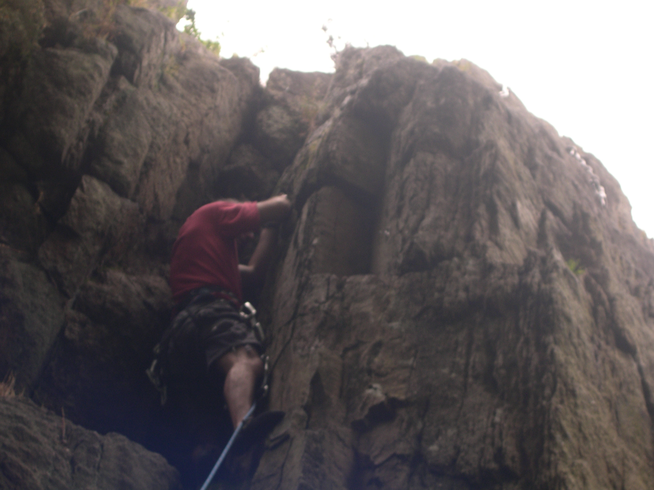 Rock climbig in La chaise du diable.